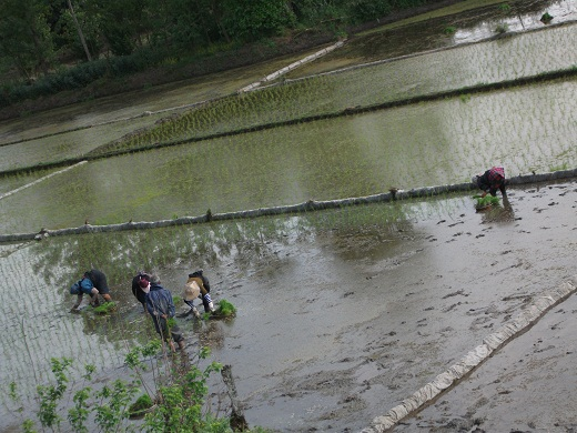 نشای برنج